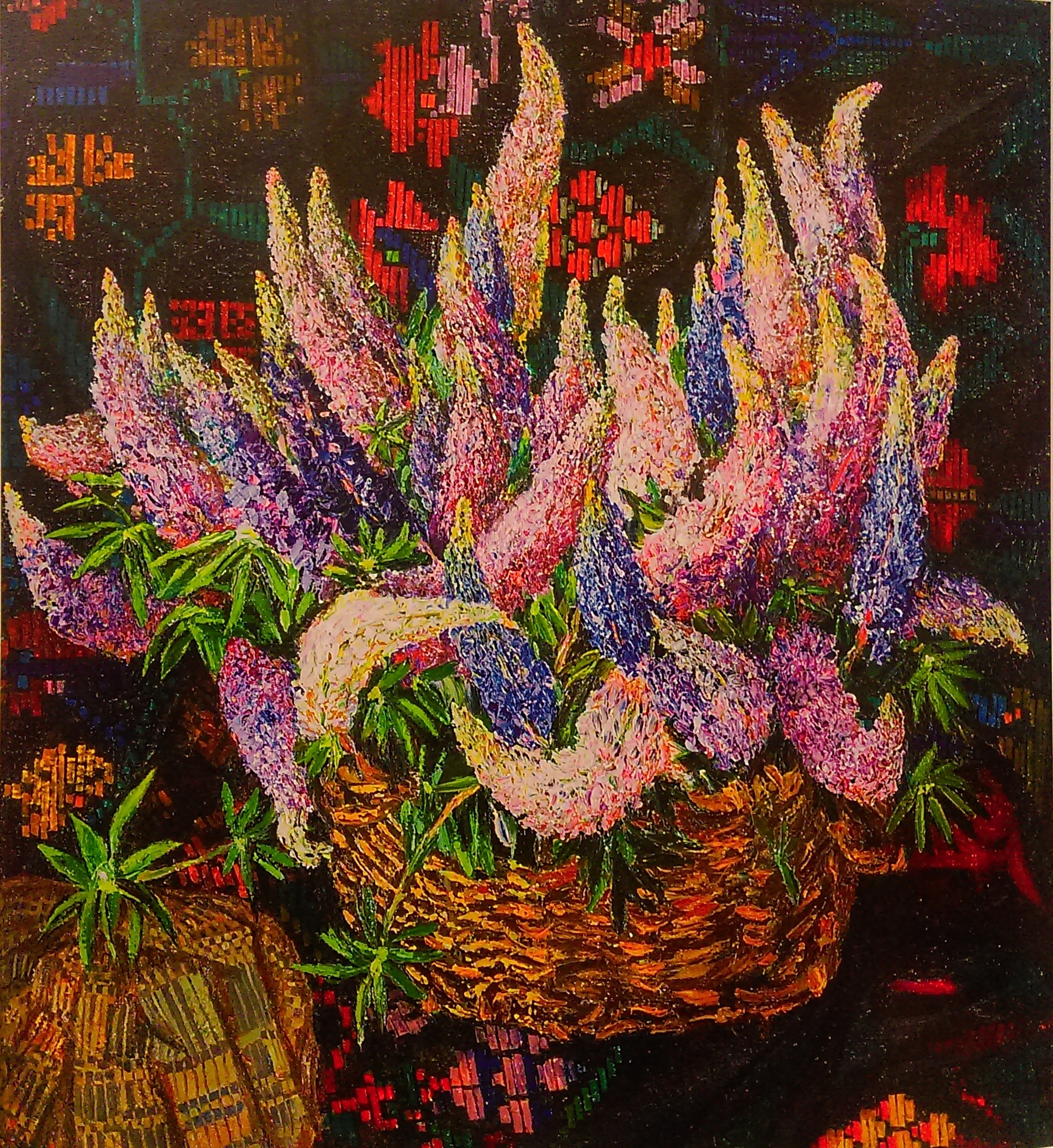 Belarusian artist Boris Arakcheev. "Still Life with lupine", 1984. Oil on canvas, 100 x 92 cm